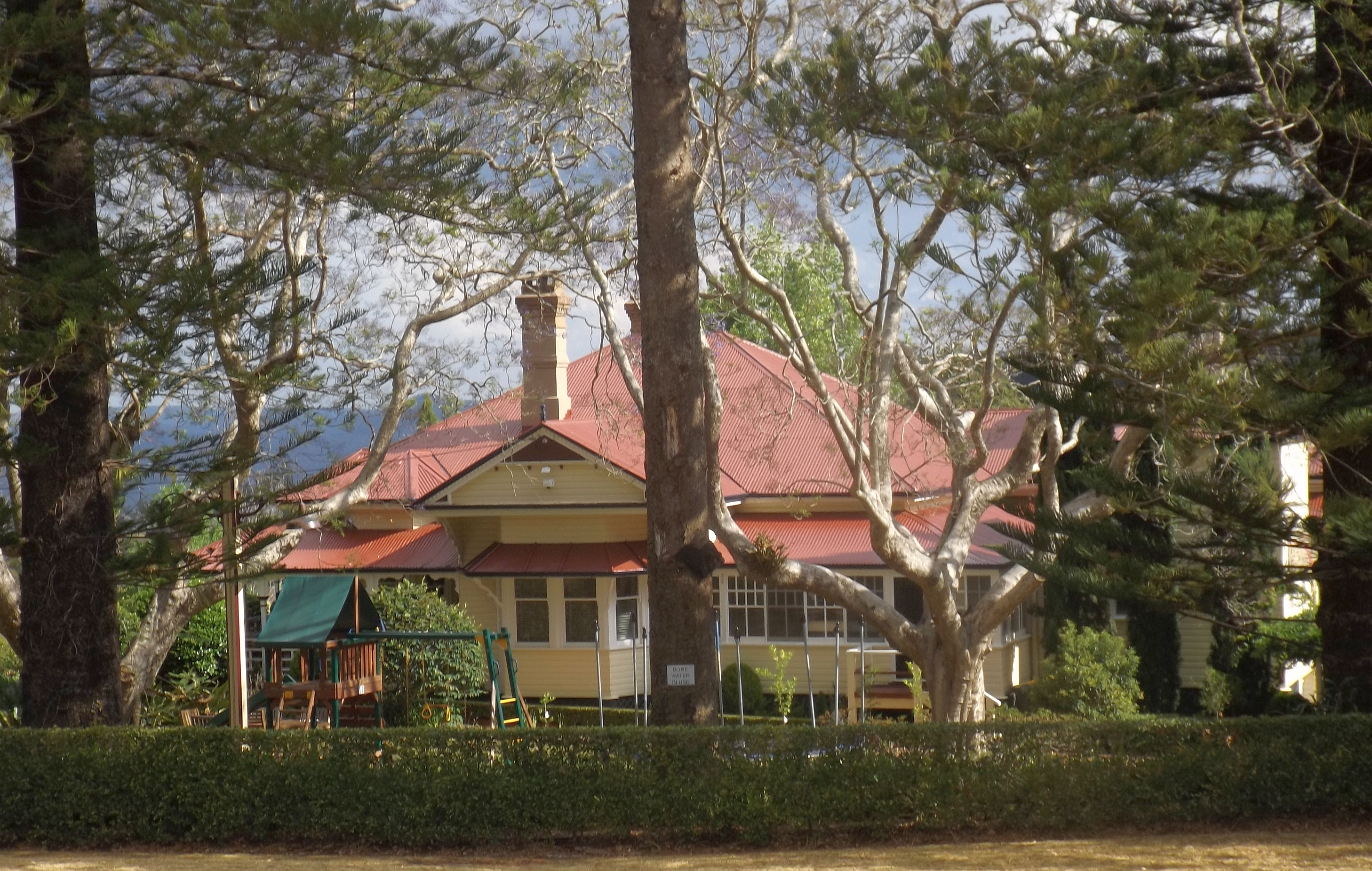 Photo of Rodway at Rangeville, Toowoomba, Queensland, Australia.